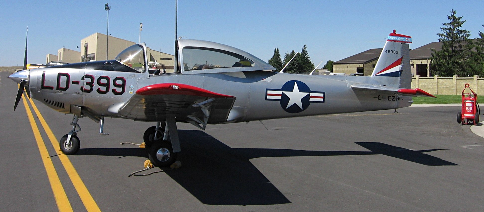 Tail number CF-EZI - 1946 North American Aviation Navion